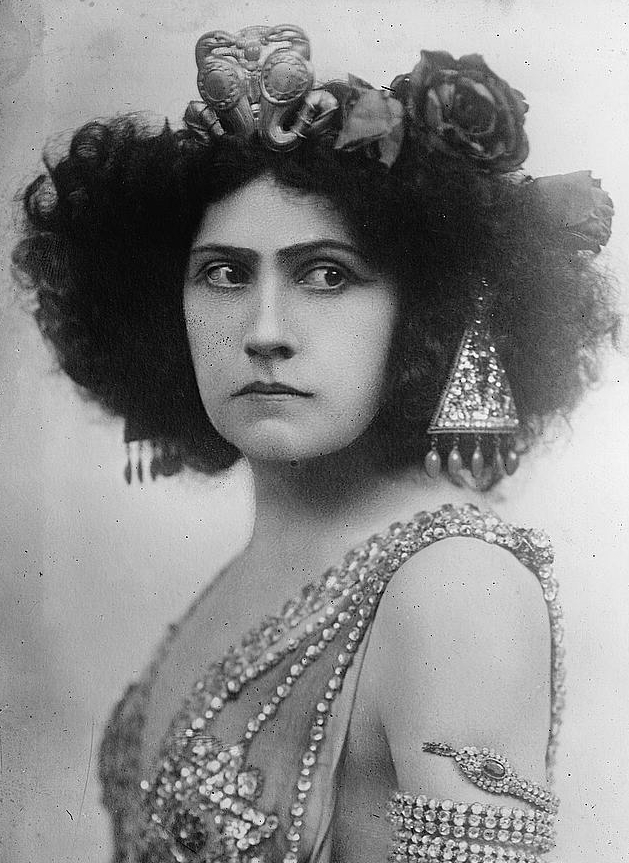 Finnish soprano Aino Ackté (1876-1944) as Salome